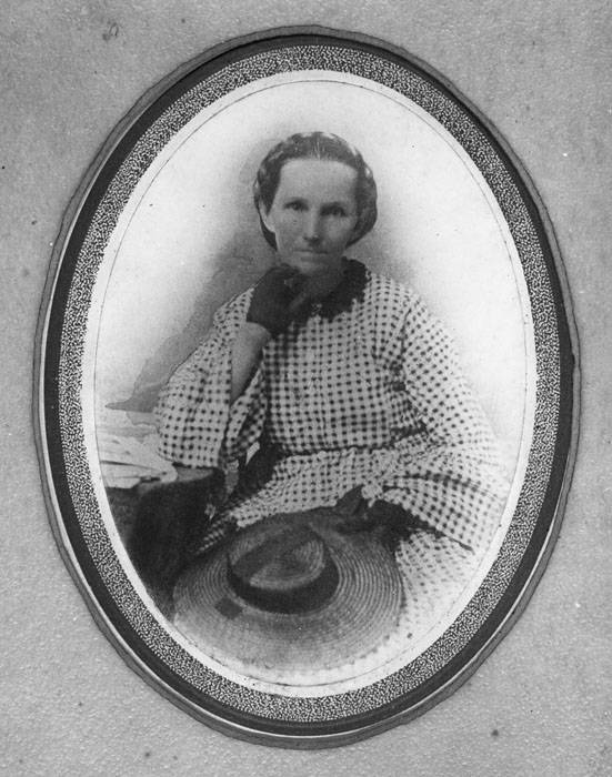 Photograph shows studio portrait of Margaret Heffernan Hardy Borland, Victoria County, Texas, rancher, with straw hat on her lap.